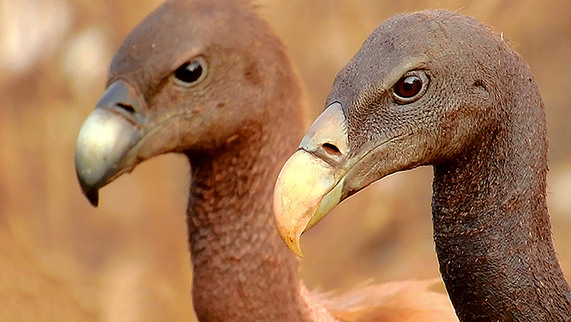 Photograph by Shantanu Kuveskar Location : Mangaon, Raigad, Maharashtra, India